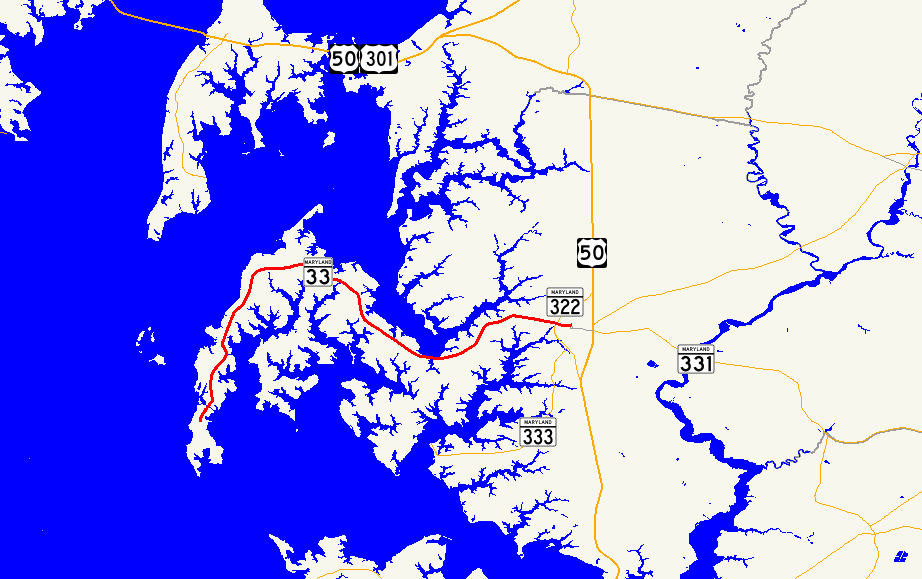 Map of Maryland Route 33